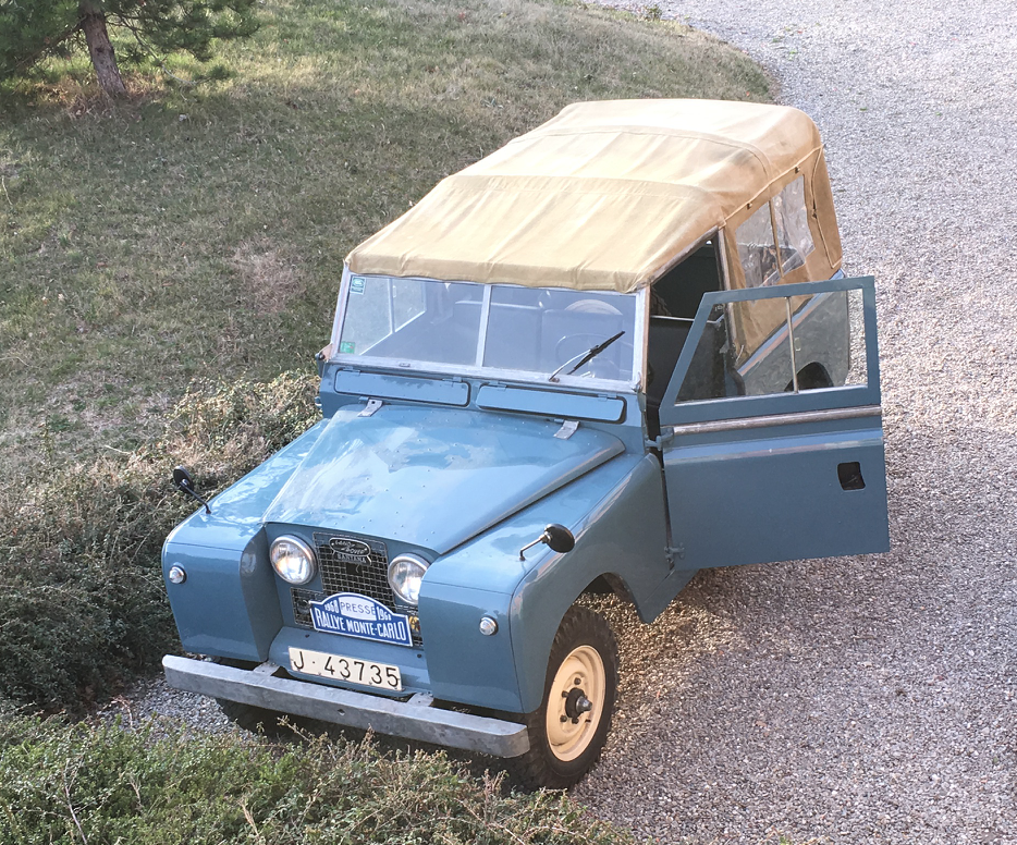 A restored example of one of the Series 2 SWB model produced by Santana from 1961 to 1974.